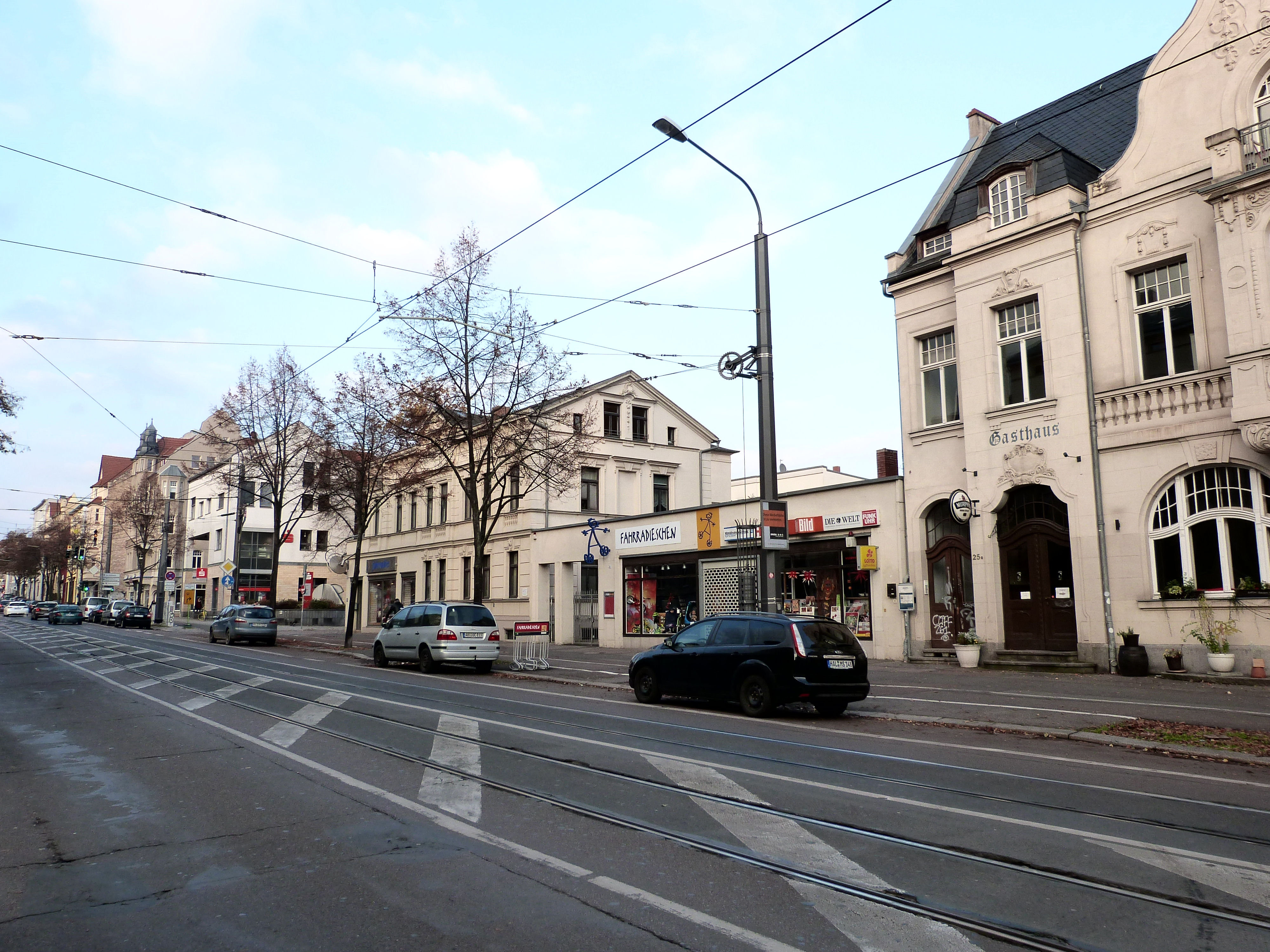 Bernburger Strasse in Halle (Saale), view to north